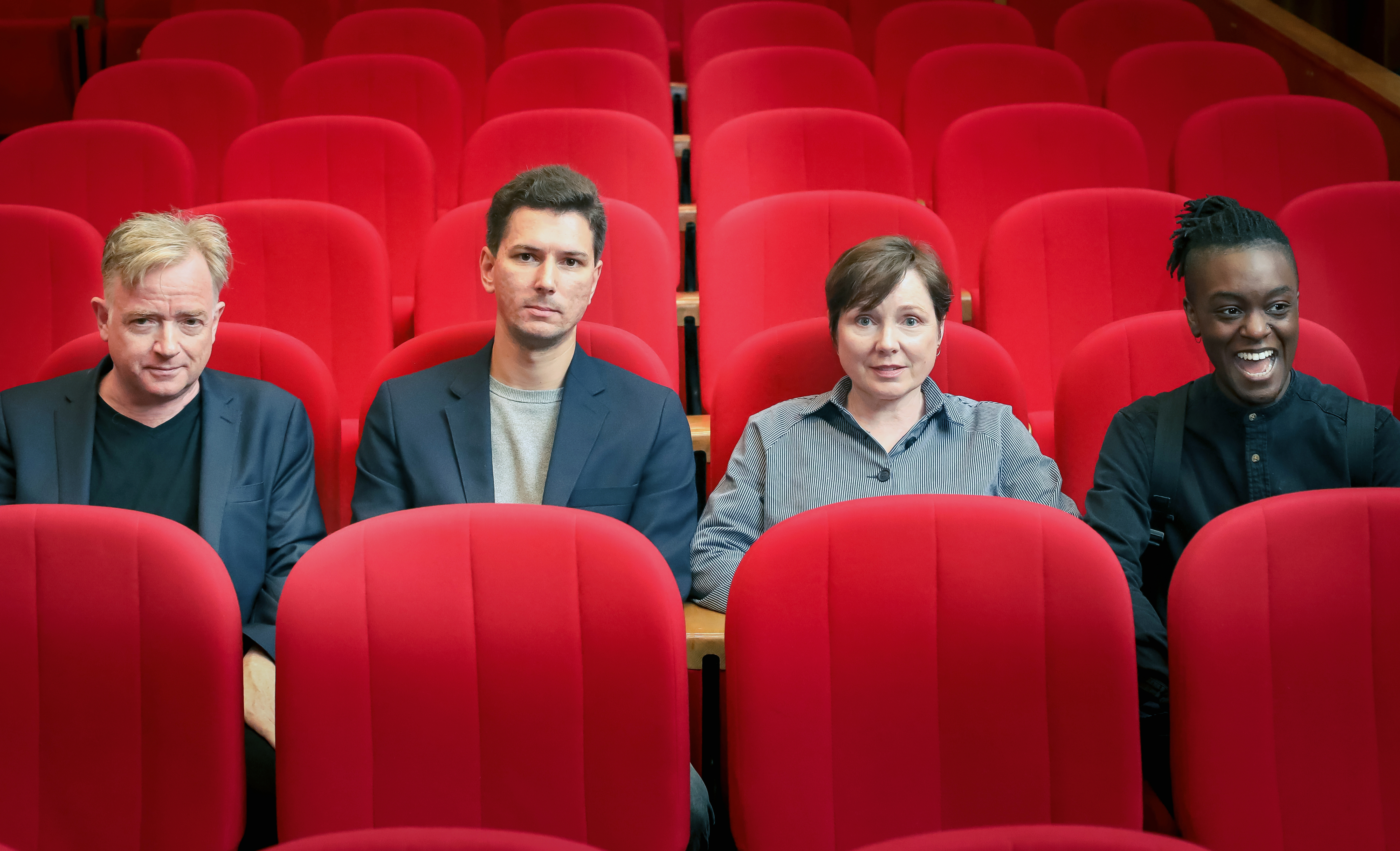 Meeting with writers from the UK in All-Russia State Library for Foreign Literature. Glyn Maxwell, Denis Beznosov, Lavinia Greenlaw, Jay Bernard.